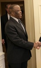 Botswana's president Festus Mogae visiting George W. Bush at the Oval Office, 13-June-2005.